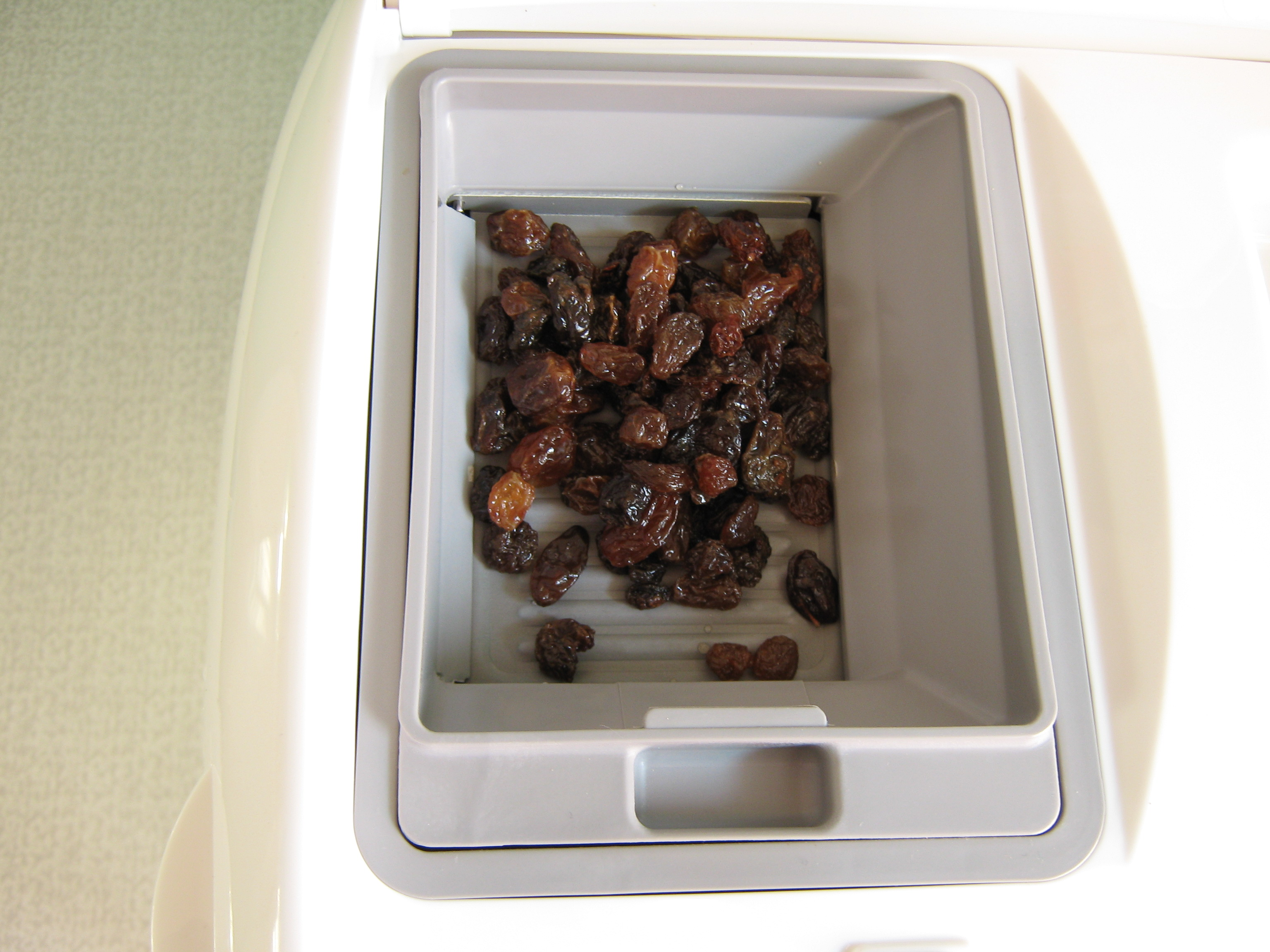 Bread machine. Raisin Nut Dispenser.